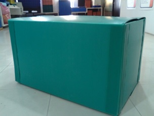 A picture of a polypropylene box used as reusable packing